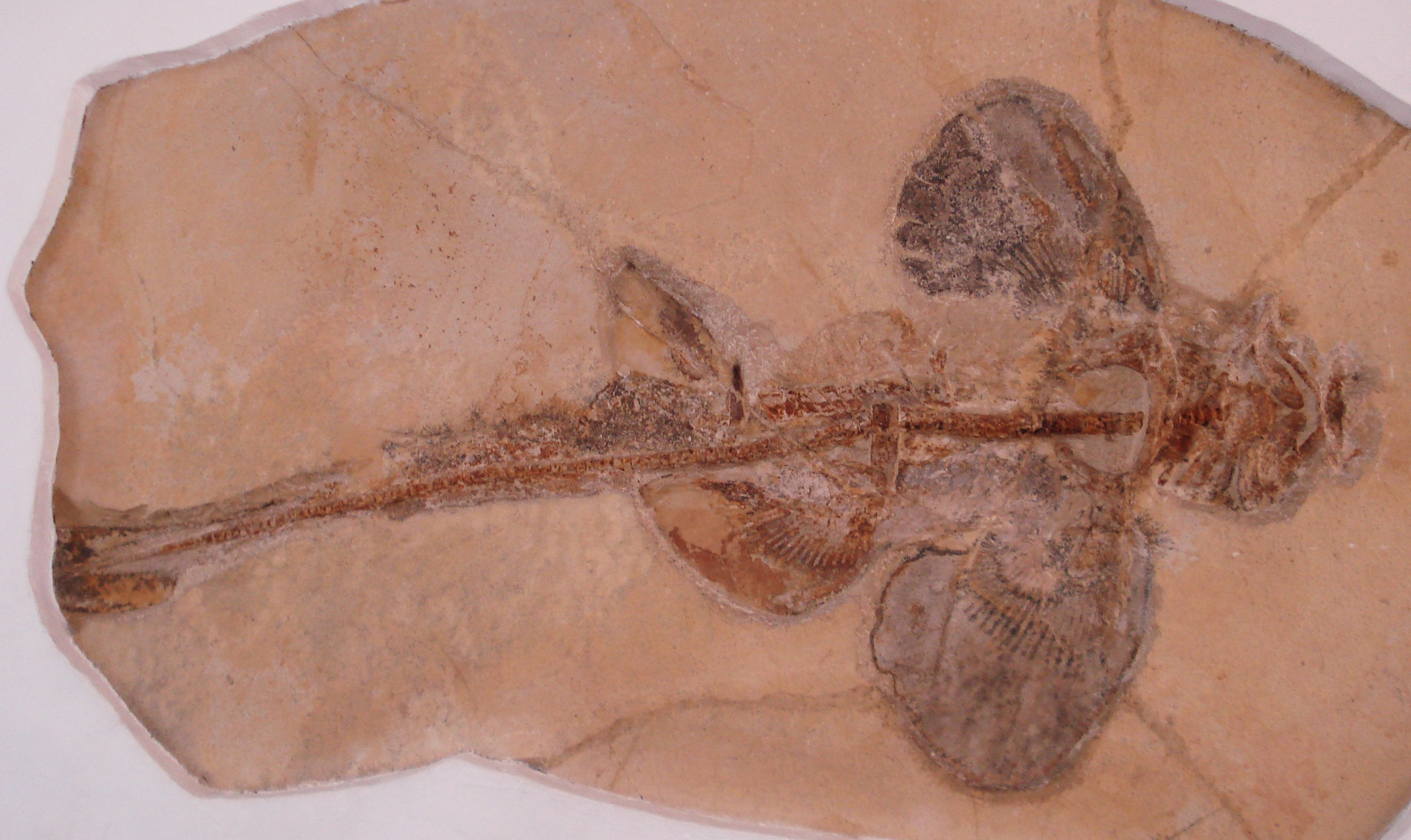 fossil of protospinax annectens